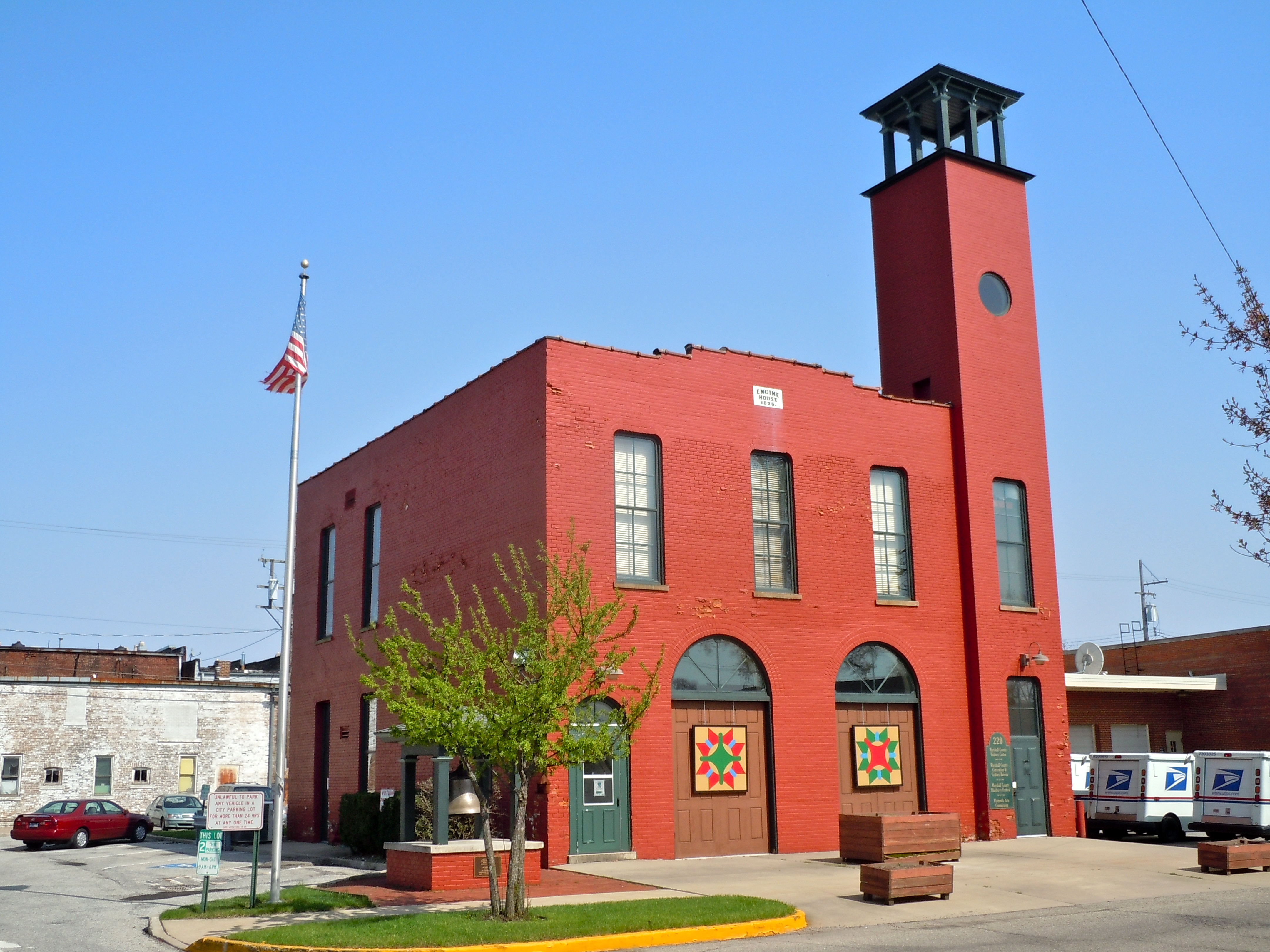 Plymouth Fire Station on the NRHP since July 9, 1981. At 220 N. Center St. (in or near downtown), Plymouth, Marshall County, Indiana.